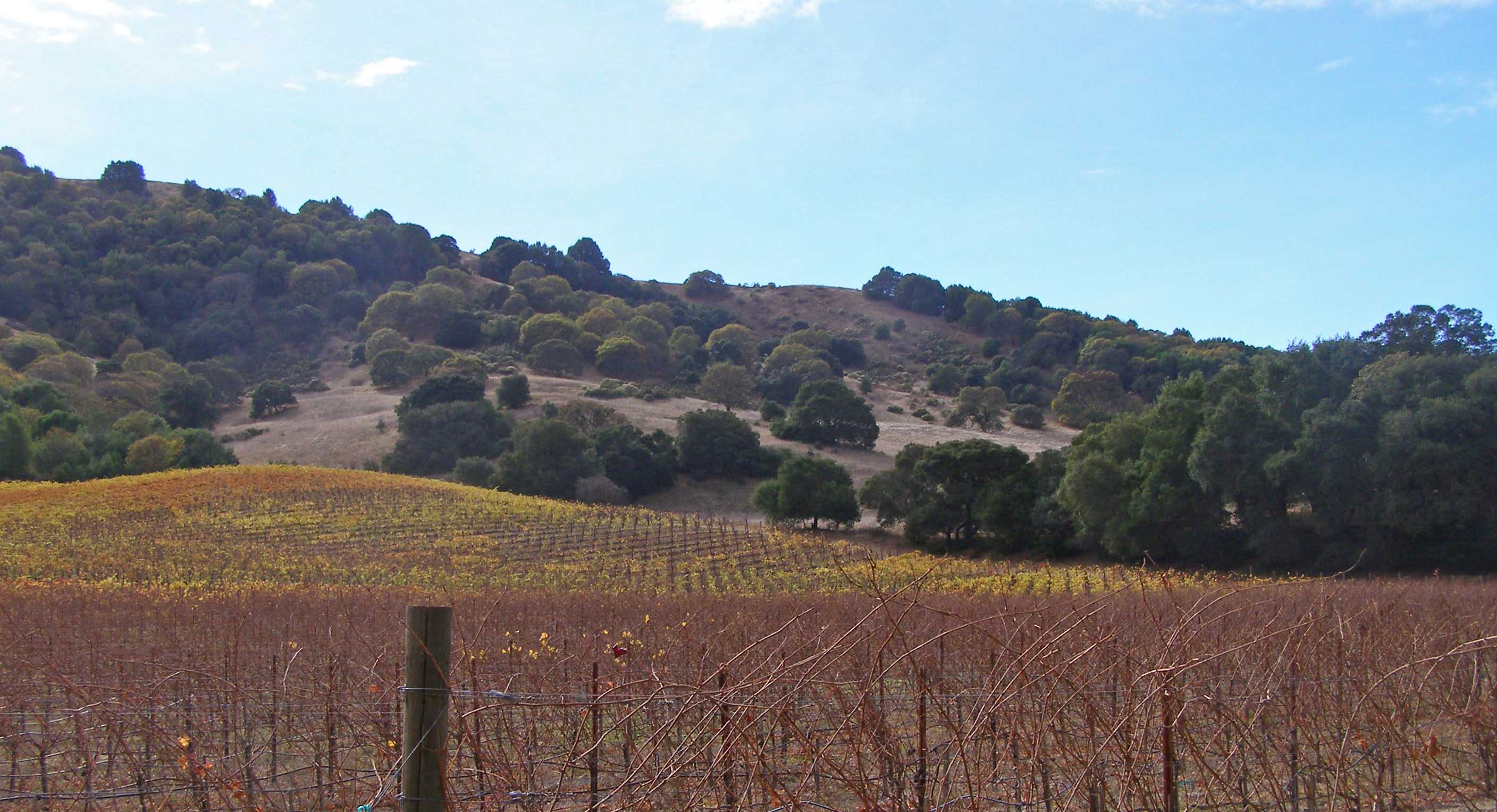 subject: vineyard on northwest flank of sonoma mtn, sonoma county, calif